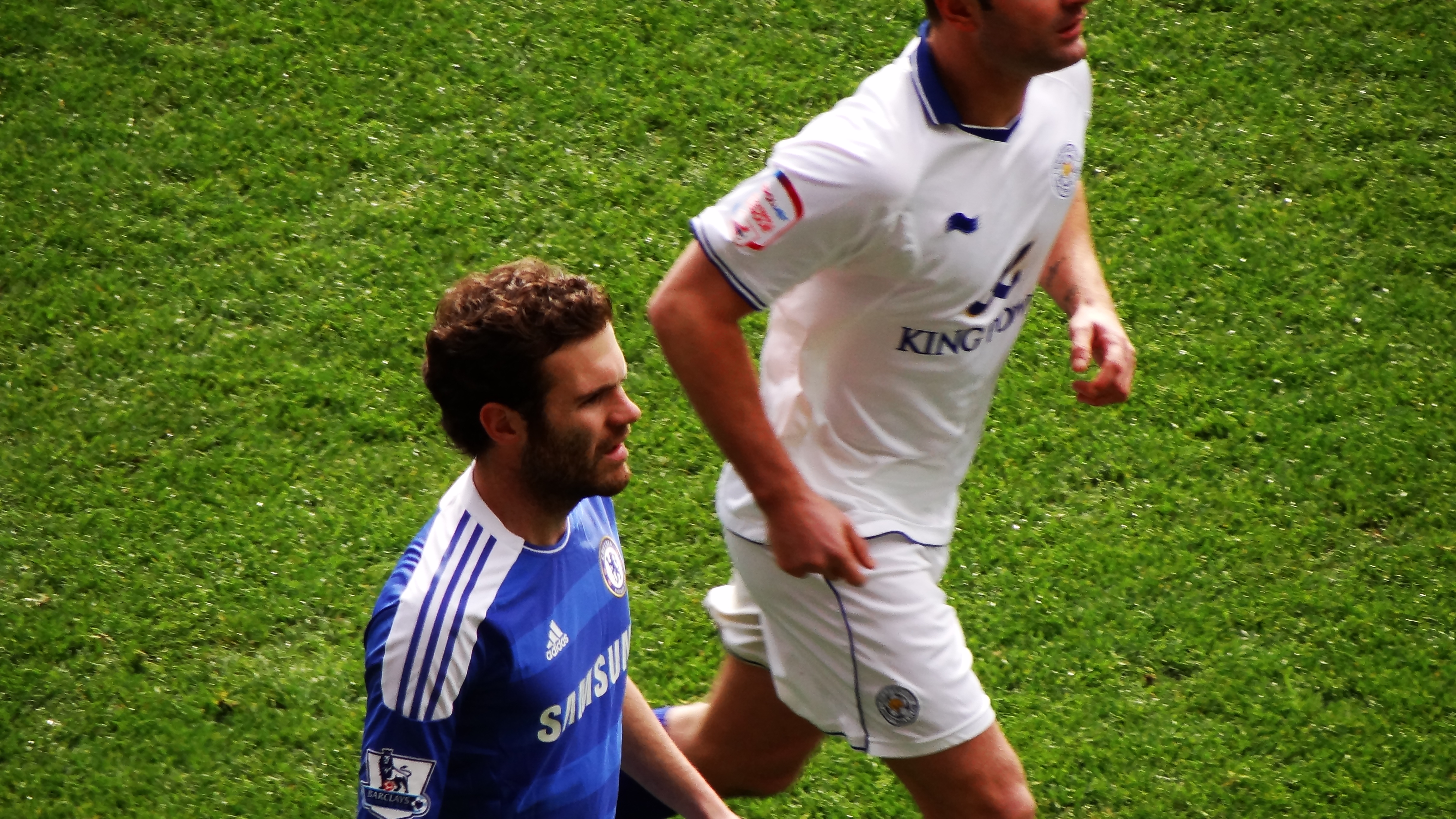 Juan Mata with Chelsea against Leicester City (March 18, 2012)